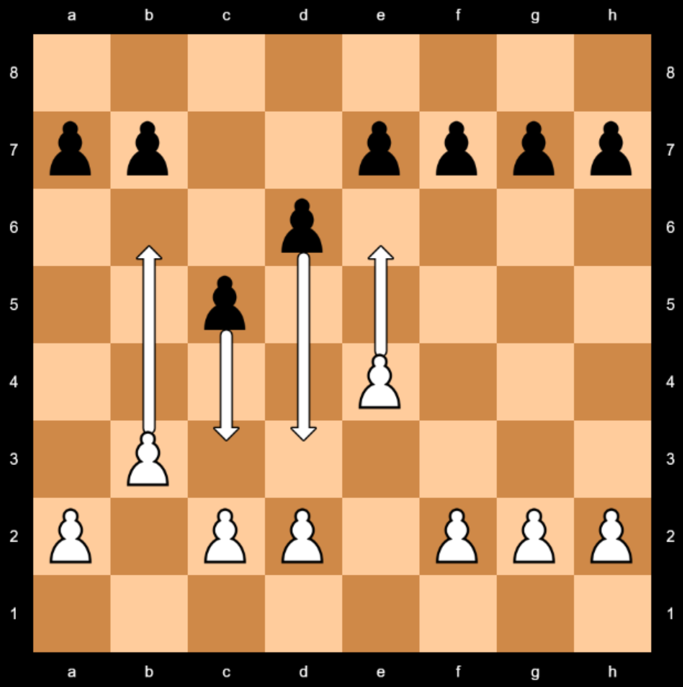 After first move, pawns may be advanced any distance down a vacant file.